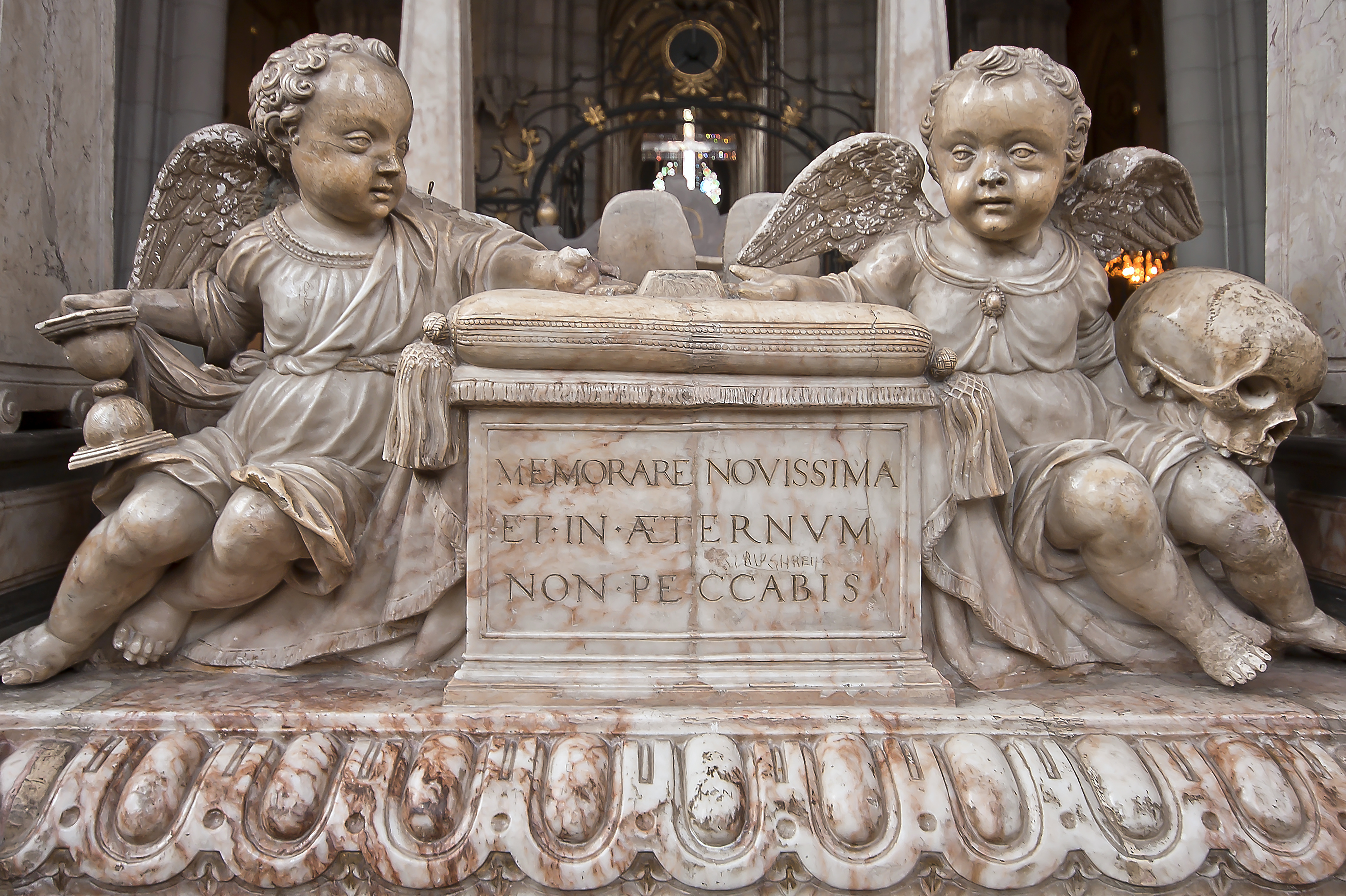 Inscription on the tomb of Gustav I of Sweden in the Cathedral of Uppsala. The text is from the Vulgate version of Sirach 7:40.